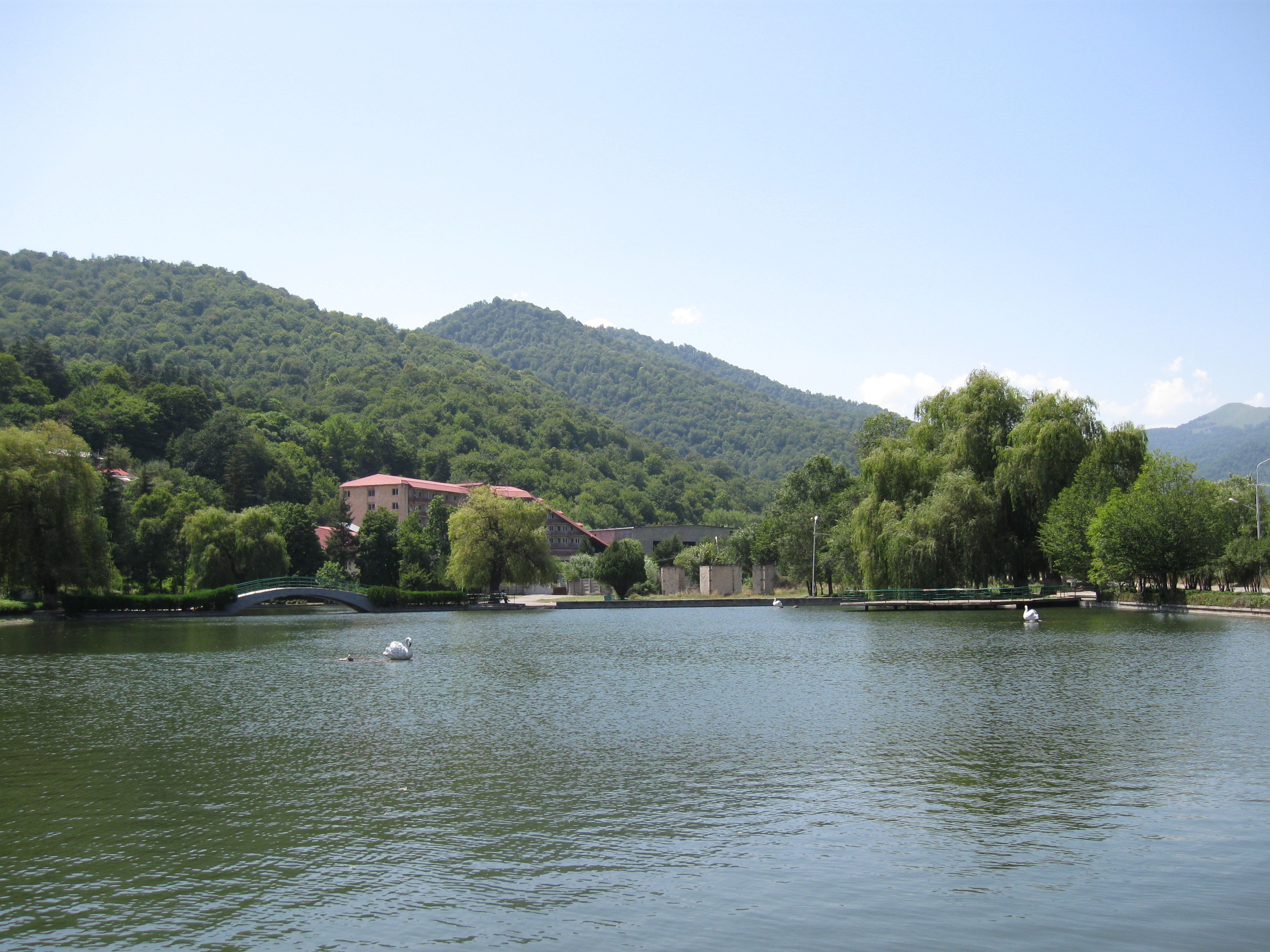 Artificial Lake in Dilijan city, Tavush Province.